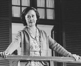 Dora Prince.-actriz argentina